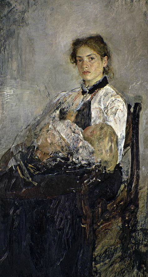 Portrait of Nadezhda Derviz with Her Child. 1888-89. Oil on iron plate. The Tretyakov Gallery, Moscow, Russia